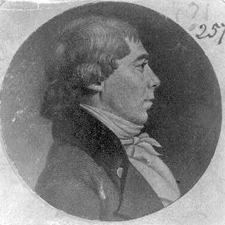 David Holmes, US Senator from Mississippi and Governor of that state